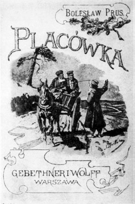 Front cover of Placówka, 1886 novel by Bolesław Prus (1847–1912). One of the very first prints; Gebethner i Wolff publishers, Warsaw. Original engraving.